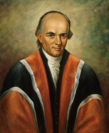 Alfred Moore (1755-1810)